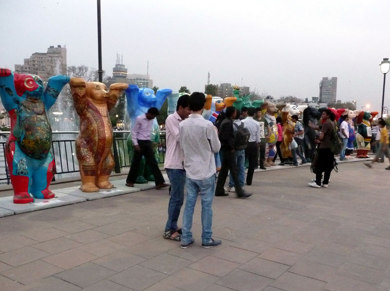 United Buddy Bears - New Delhi 2012